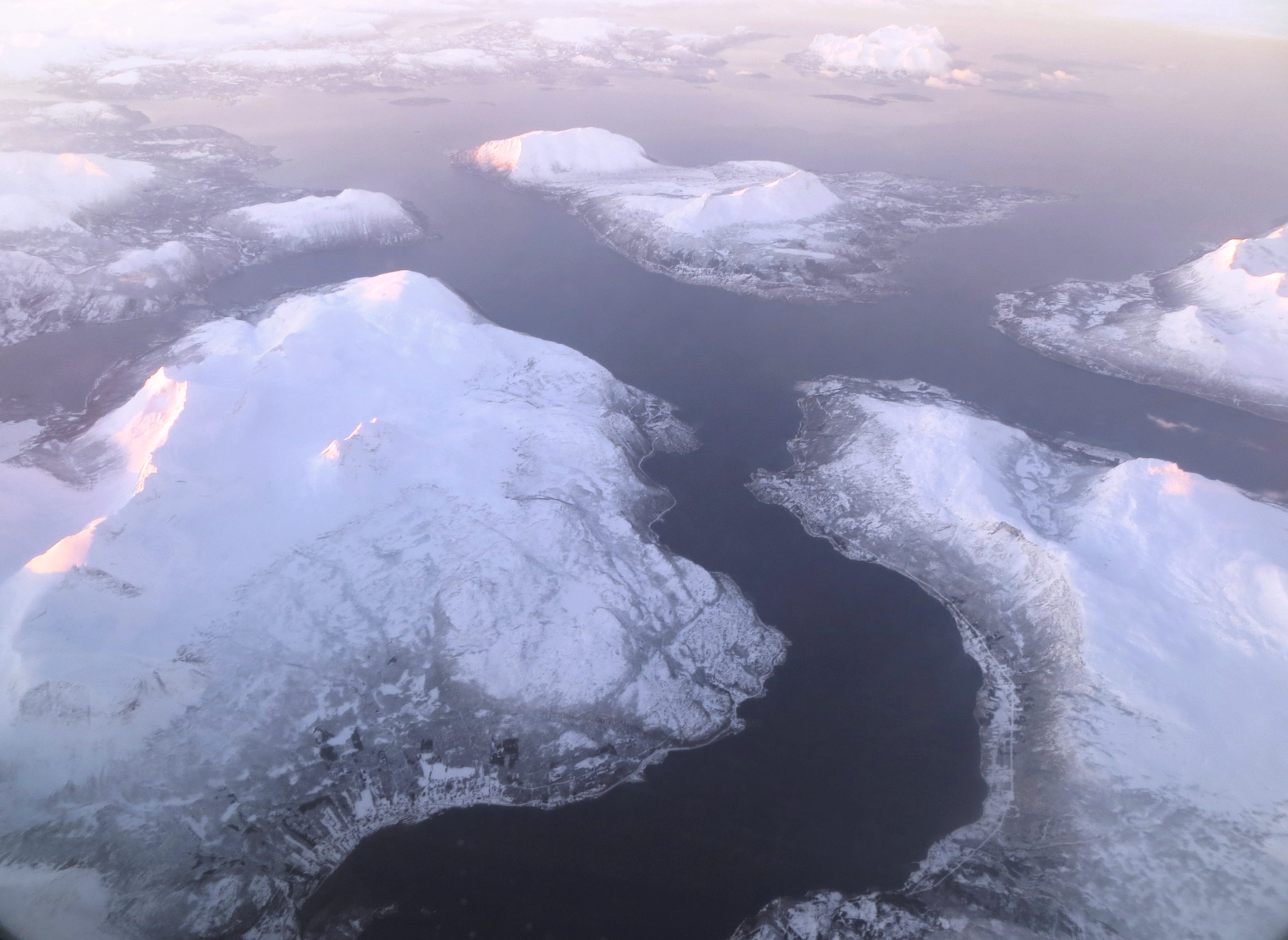 Aerial view from the east towards west, of Ibestad Municipality (islands) and Gratangen Municipality (mainland), in Troms county (Norway). The distinctive island in the fjord is named Rolla.